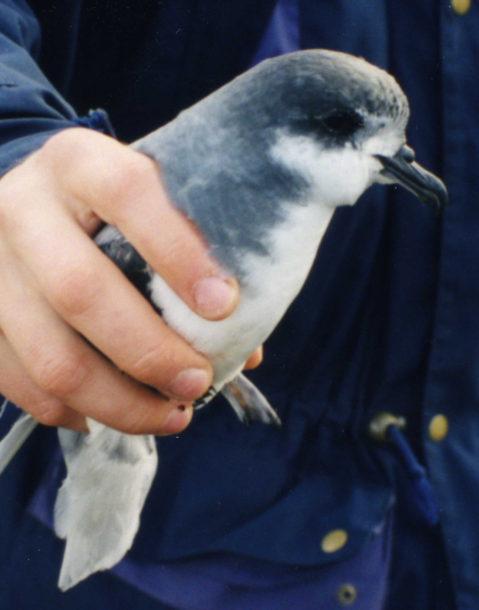 Blue Petrel (Halobaena caerulea) - ornithological survey and ringing campaign on Mayes island - 1999 (Kerguelen Islands) This is a retouched picture, which means that it has been digitally altered from its original version. Modifications: Cropped. The original can be viewed here: Halobaena caerulea.jpg. Modifications made by Roarjo.